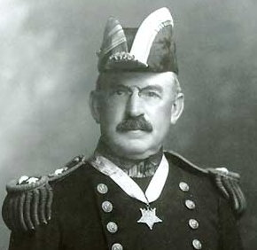 Portrait photo of Admiral Frank F. Fletcher, USN, taken circa 1919, while wearing his Medal of Honor.